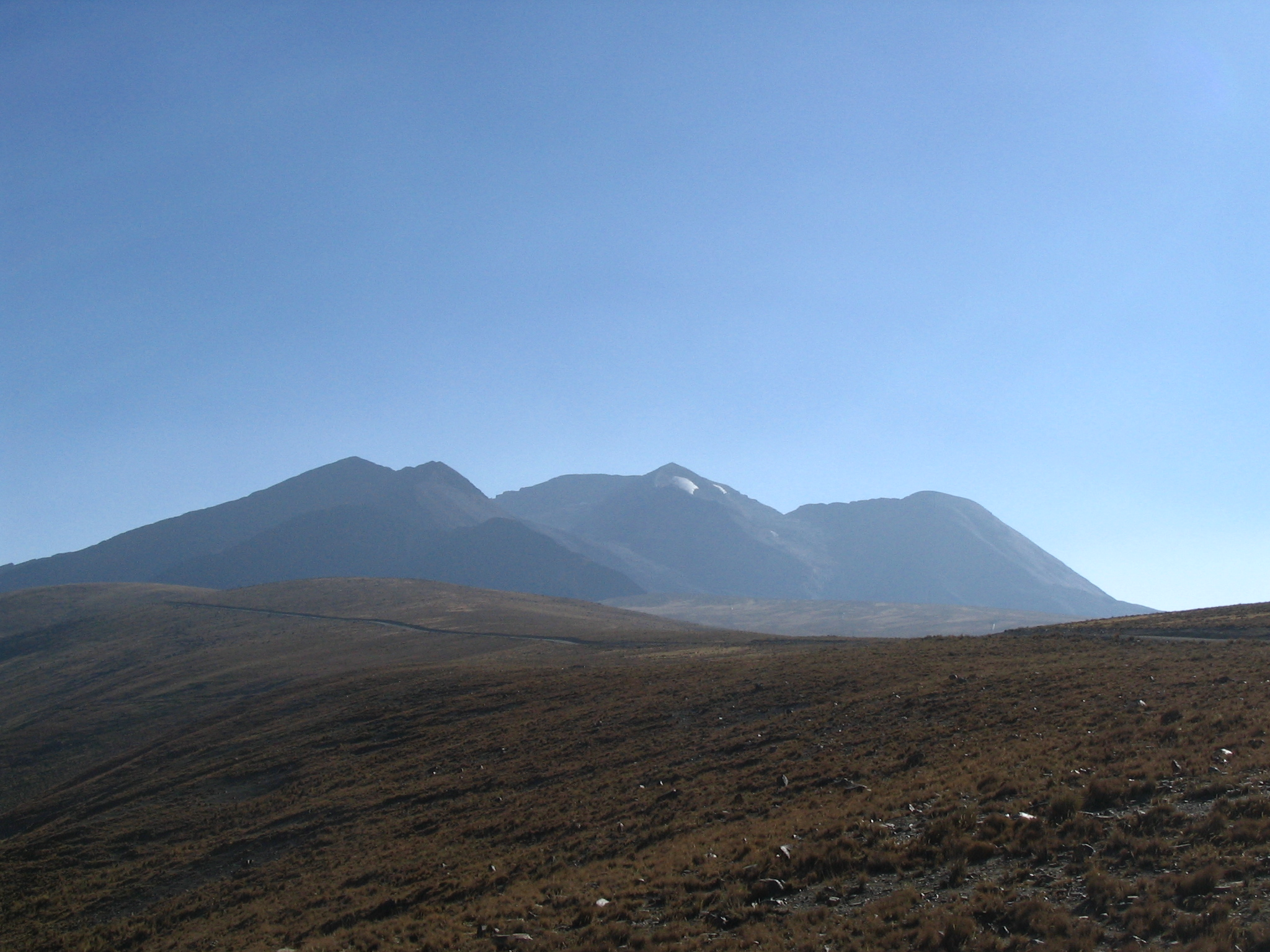 Chacaltaya in Bolivia. Photo : by User:Anakin in 2005.